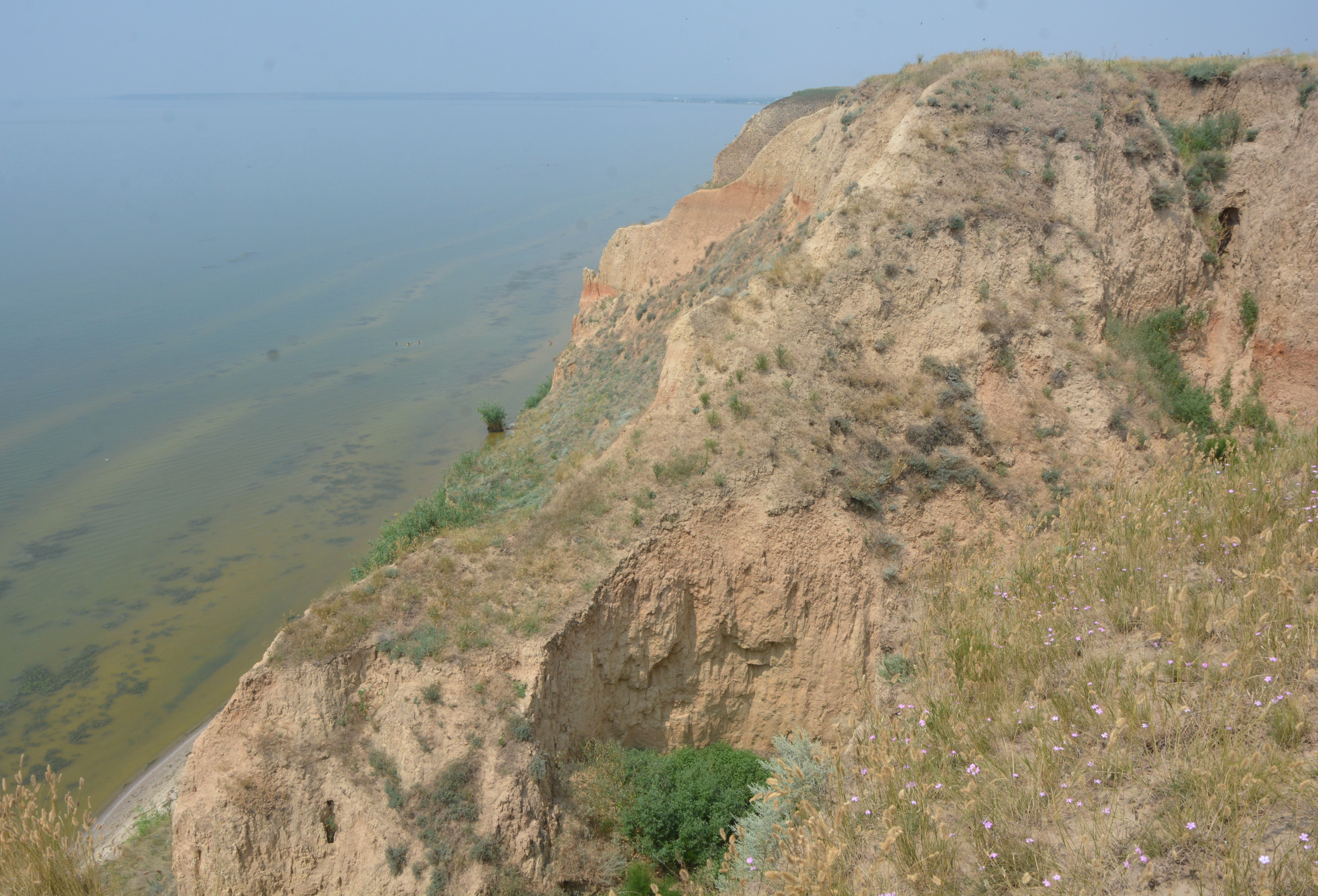 Borders and entrances to Stanislav ancient settlement which is a multi-layers monument of history and archeology and have been populated in several stages – since establishing the settlement of Late Bronze Age of Bilozerka archeological culture in XII-XI century B.C. until populating the settlement by Chernyakhov culture representatives in I-IV century A.D. In I century A.D. the settlement was fortified. Located in the outskirts of Stanislav village in Bilozeskiy raion of Kherson region in Ukraine. This site of the ancient settlement was discovered by archeologist Oleksiy Uvarov in 1848, the last full-scale excavations were carried out in years of 1982 and 1988-1991